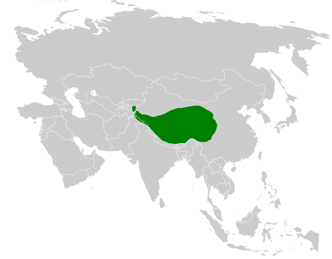 Pseudopodoces humilis distribution map, based on